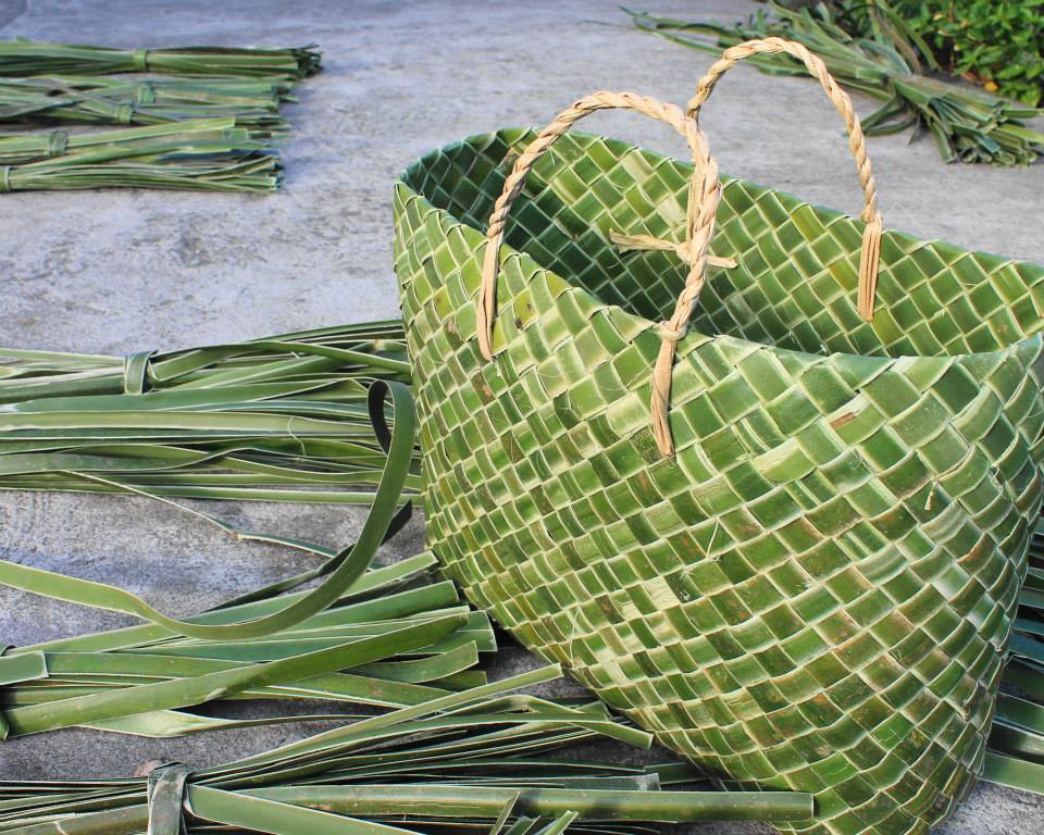 This Bulusan bay'ong is made from 100 % organic materials : karagumoy strips for the body and buri string for the handle. Both karagumoy and buri are indigenous to the Bicol region. (Bulusan, August 2015)